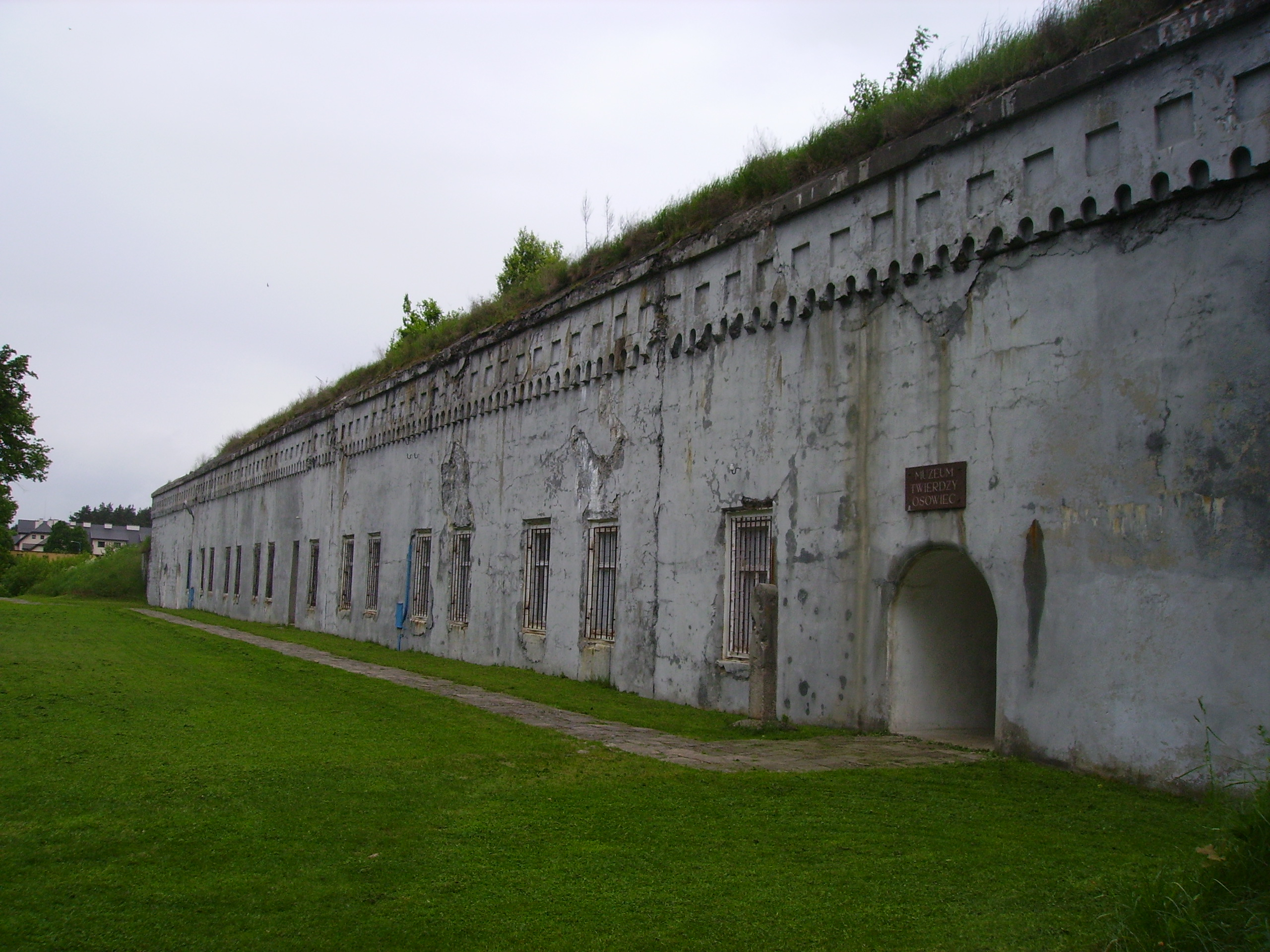 Seat Fortress Museum Osowiec